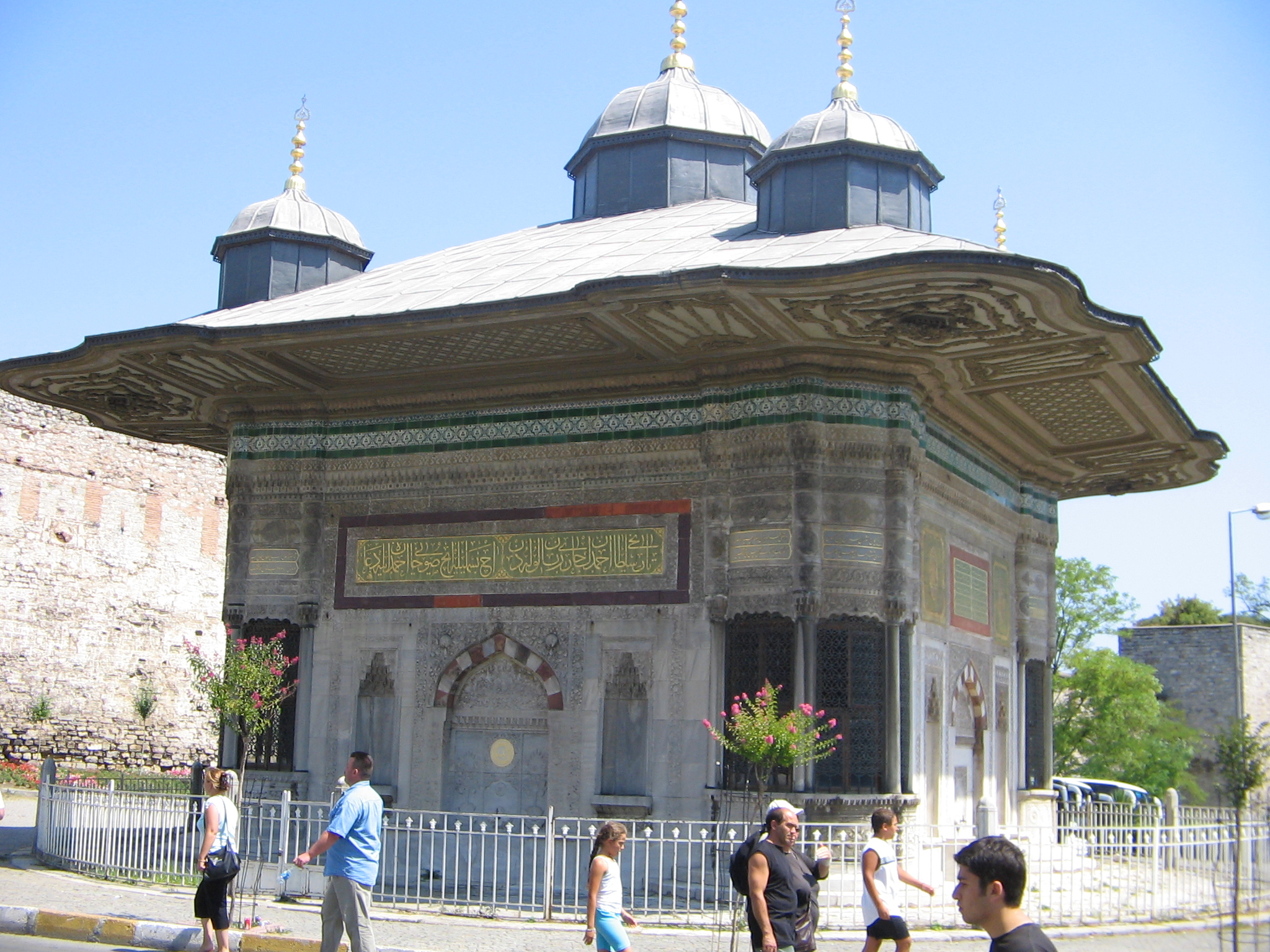 the ahmet cesmesi (the spring of ahmet) at the front of the entrance of the topkapi palace in istanbul